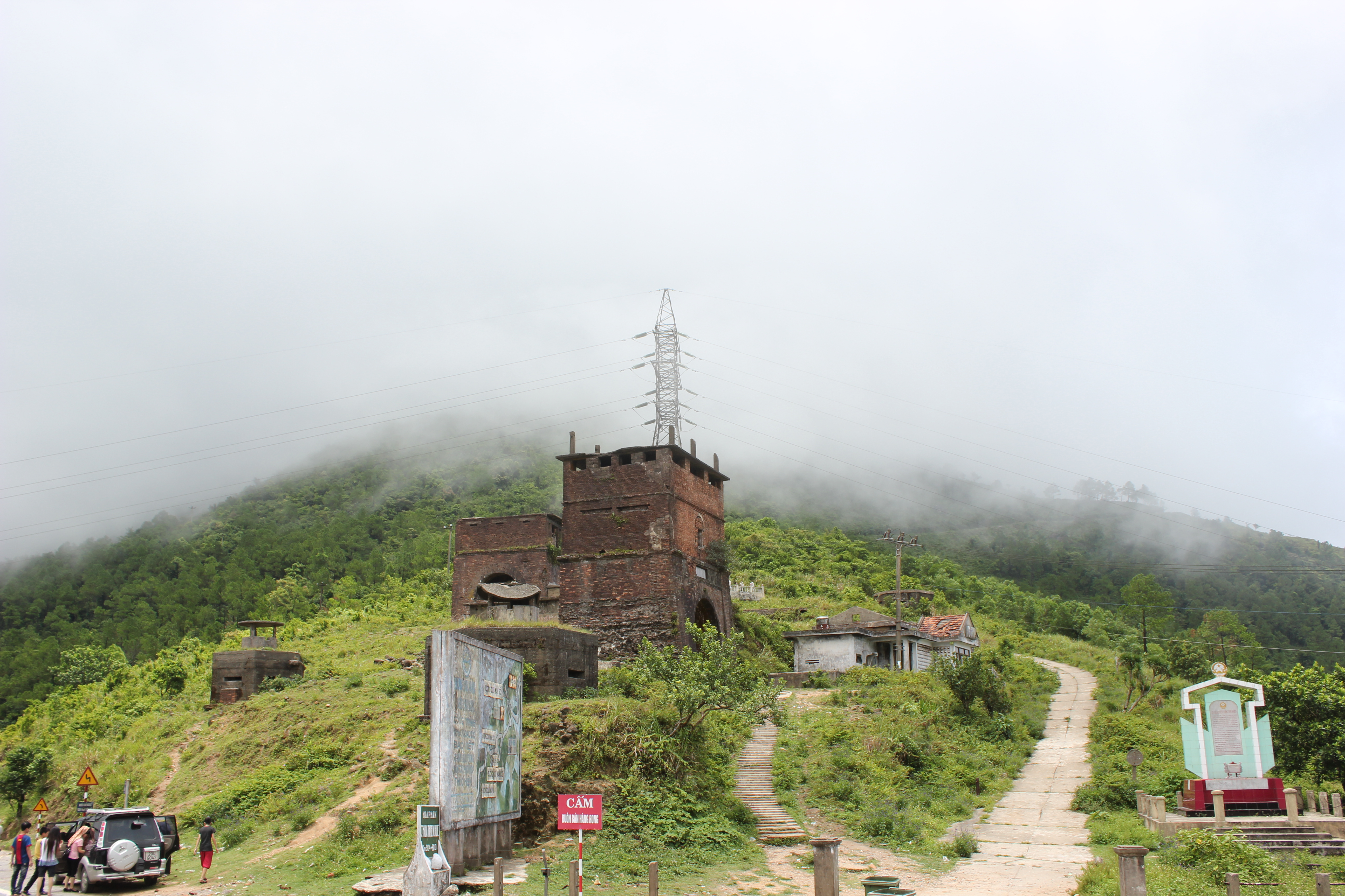 Fog Eats Mountain in Vietnam.